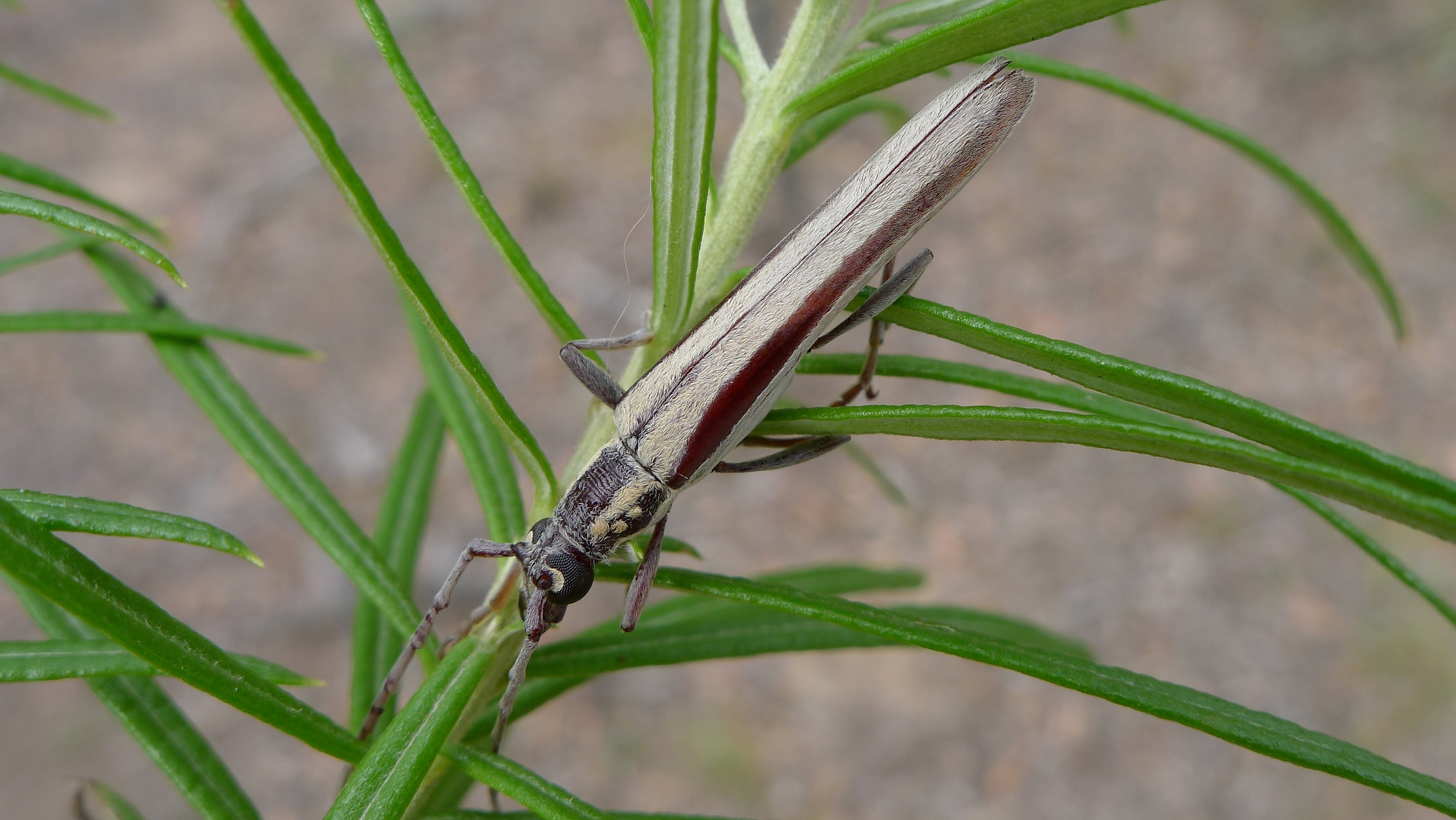 Uracanthus bivitta Newman, 1838 det. F. Vitali. McCleods Nature Reserve, Gundaroo NSW Australia, December 2013.